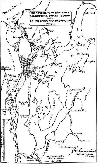 Map: "Improvement of waterway connecting Puget sound with Lakes Union and Washington Wash."